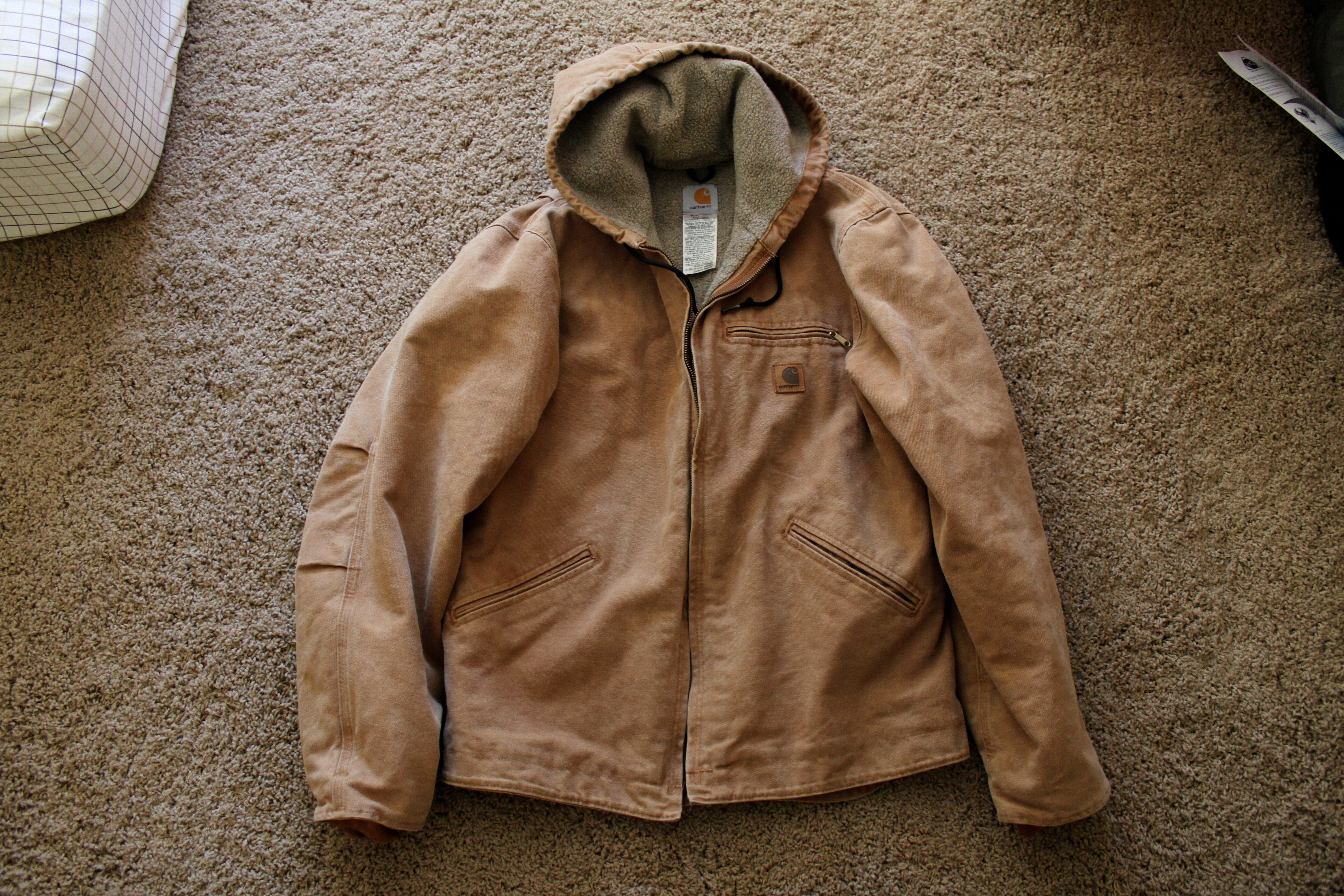 Craigslist: Carhartt Hooded Jacket